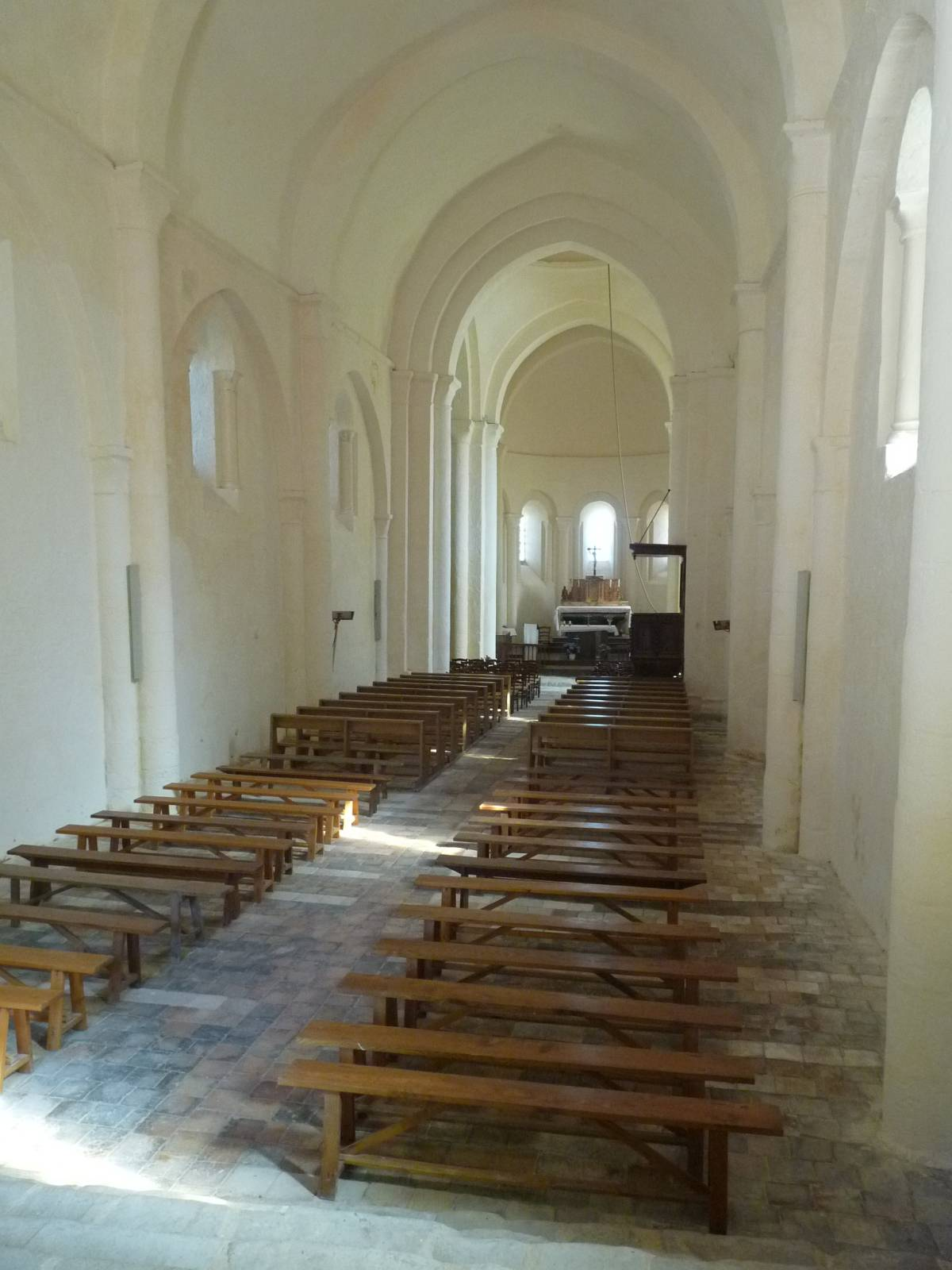 church of Berneuil, Charente, SW France